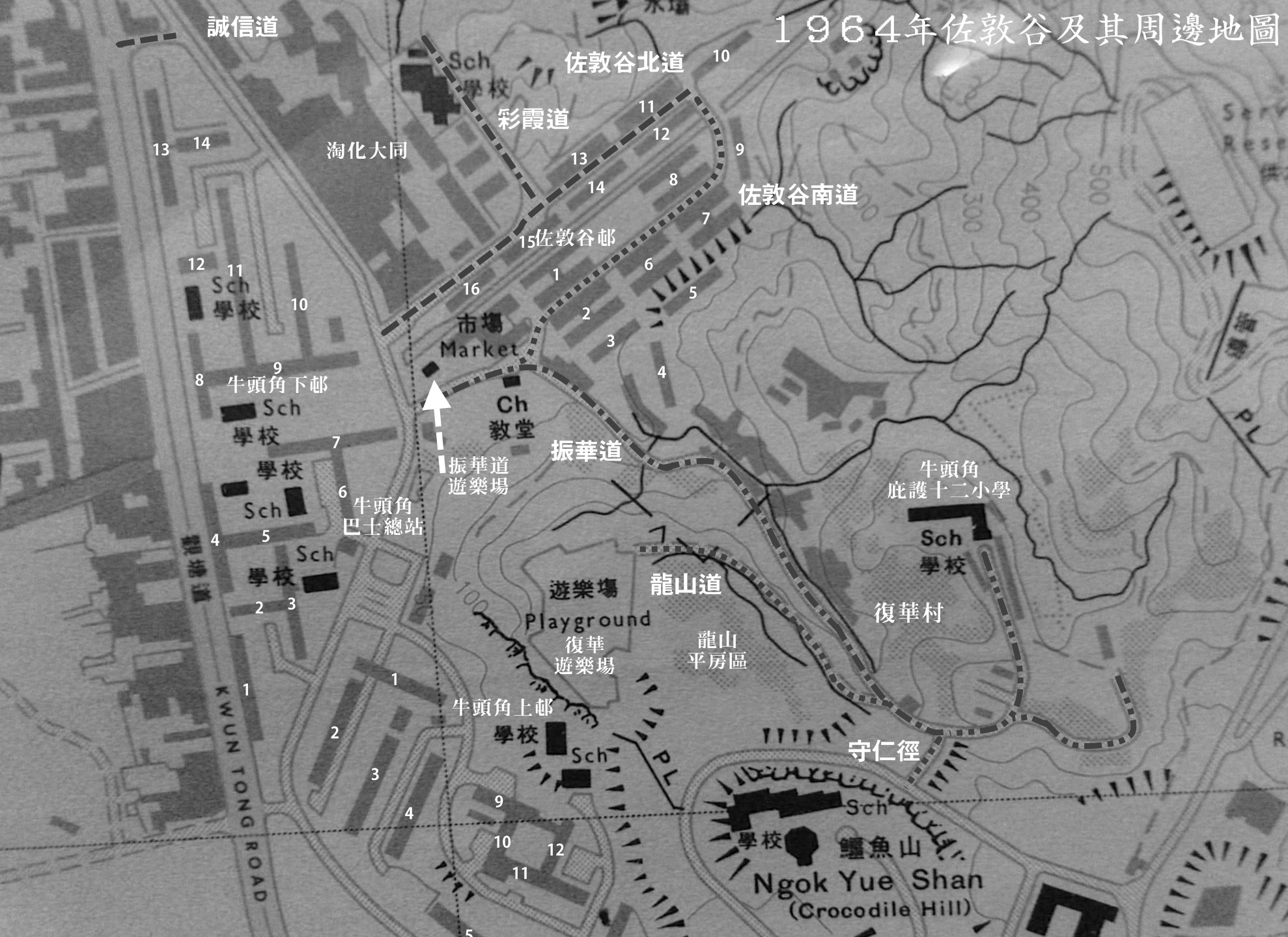 A map of Jordan Valley in 1964.